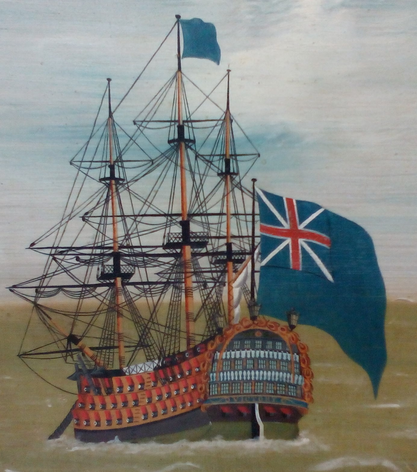 HMS Victory on 'The Fleet Offshore', 1780-90, an anonymous piece of folk art now at Compton Verney. Further information at